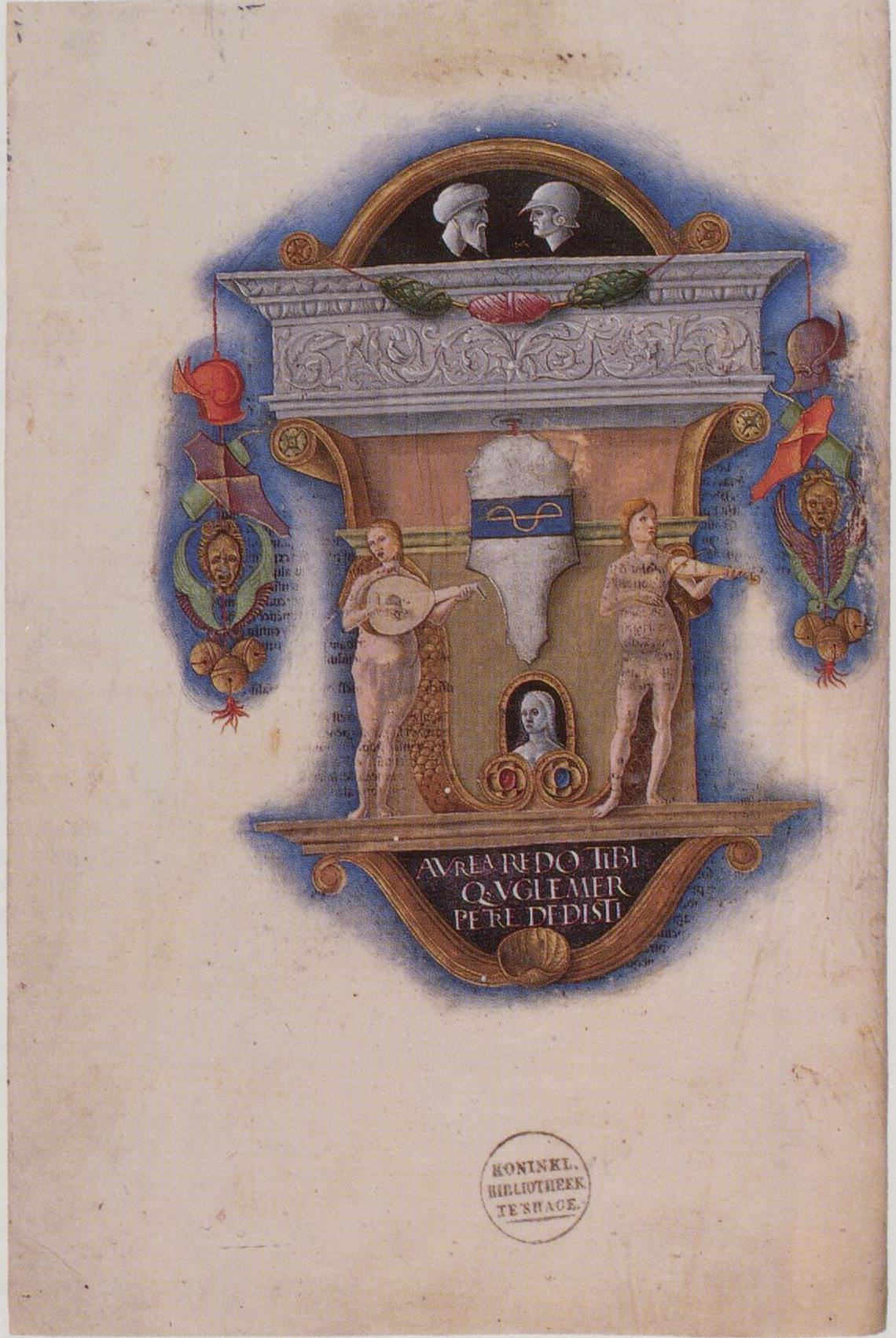 Den Haag, Koninklijke Bibliotheek, 169 D 3, fol. IV